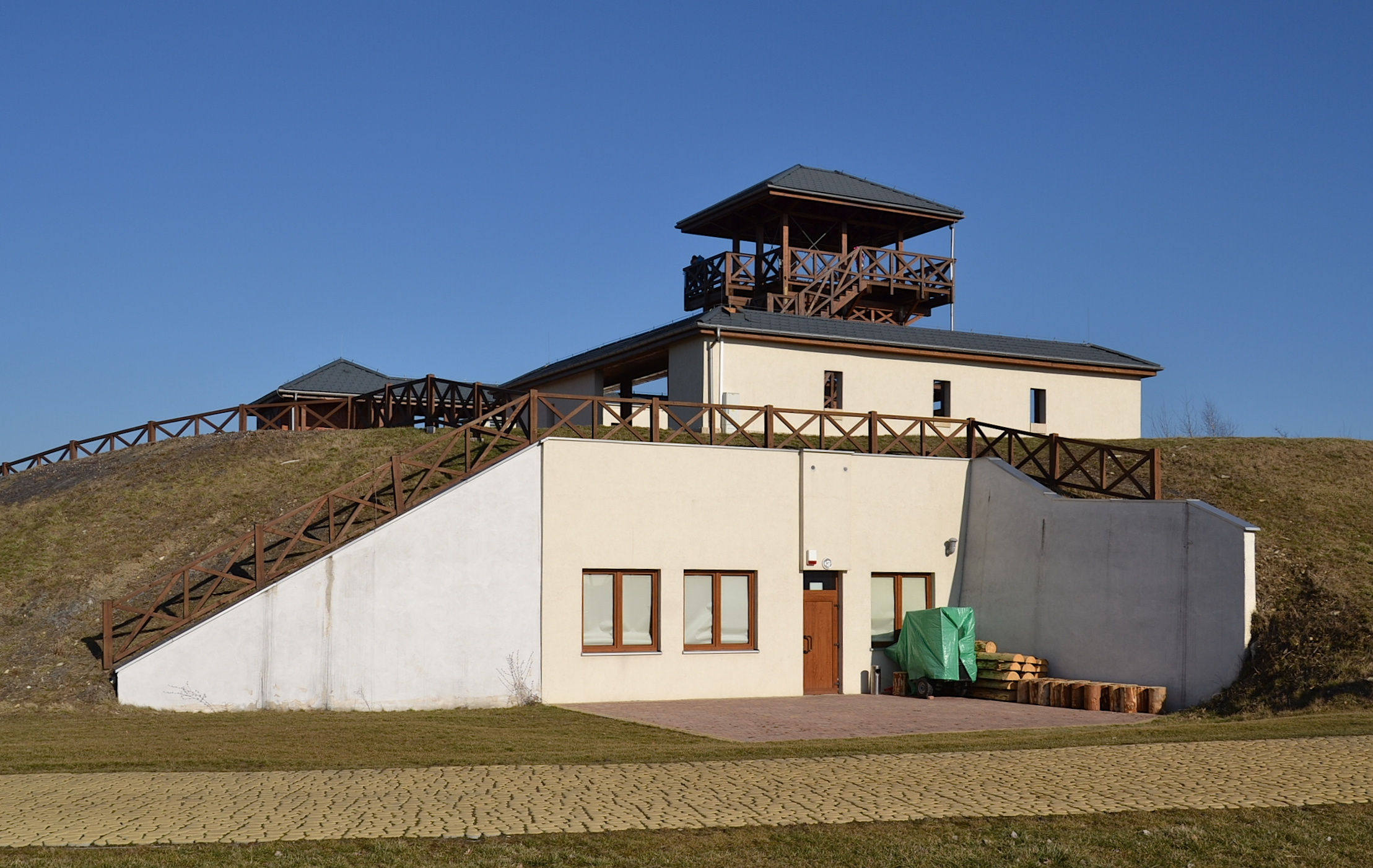 Śląski Ogród Botaniczny (Silesian Botanical Garden) - Mikołów-Mokre, Poland - viewpoint